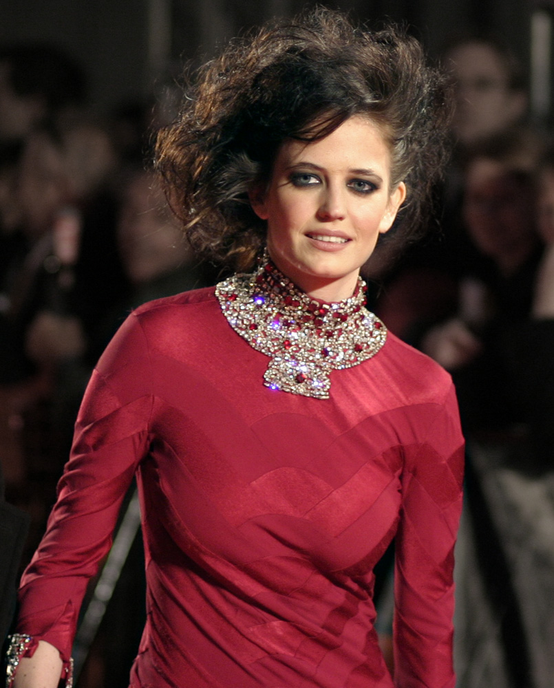 Eva Green at the BAFTAs at the Royal Opera House in London